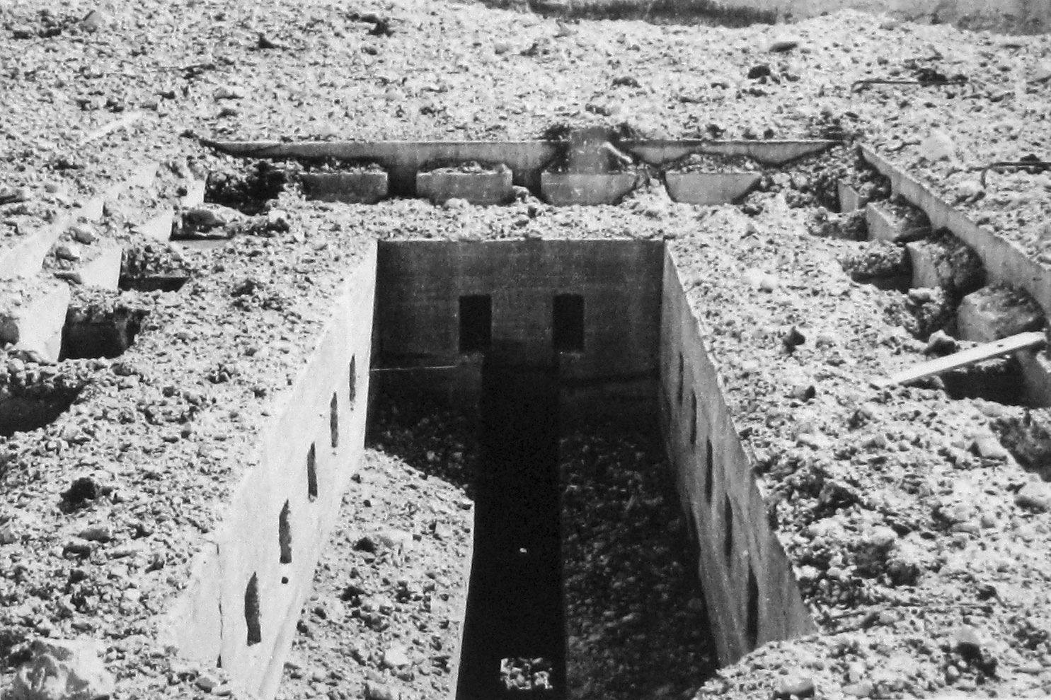 Rectangular slot through concrete slab above inclined shaft. [Original caption]